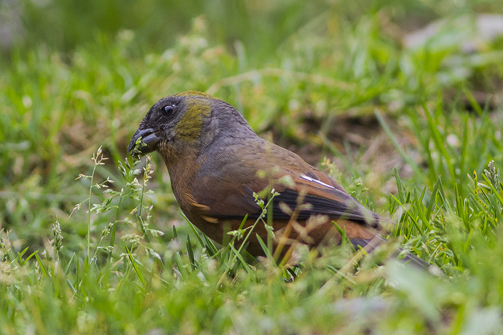 The species Golden-naped Finch has been photographed during the bird photography tour of GoingWild at East Sikkim, India, Asia in the month of May 2014.